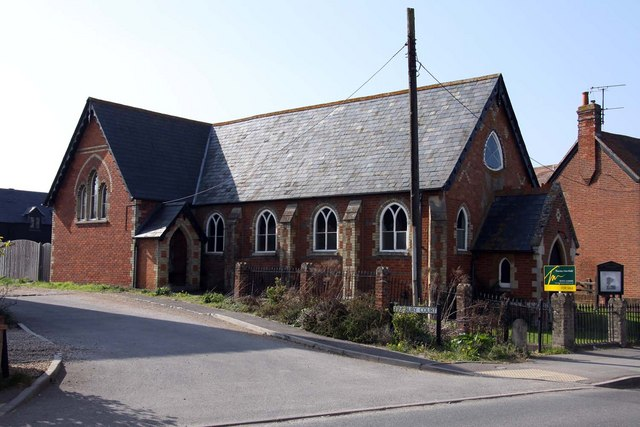 Methodist Church, 24 High Street, Steventon, Oxfordshire (formerly Berkshire)